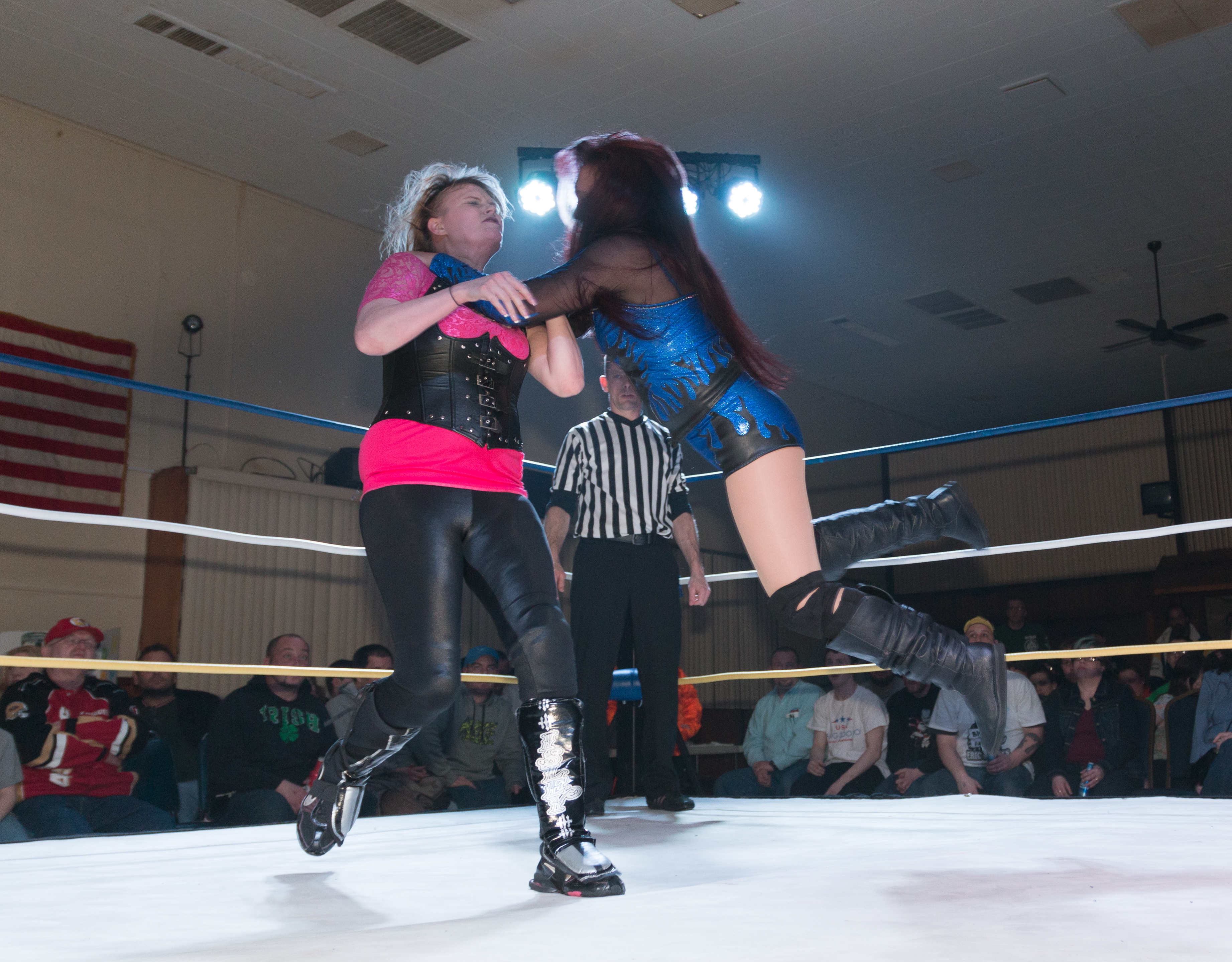 Malia Hosaka (in blue) doing a flying clothesline on Ingrid Isley at a BWCW show in Port Huron, MI